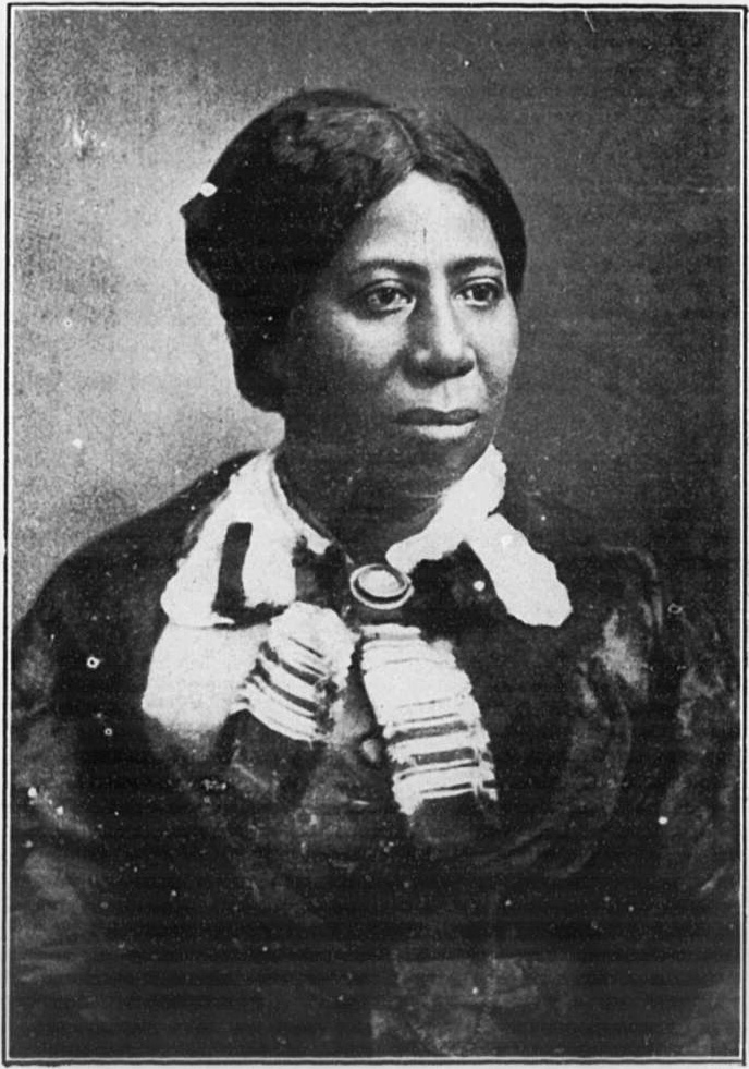 Photograph of Anna Murray Douglass (1813–1882), the first wife of Frederick Douglass